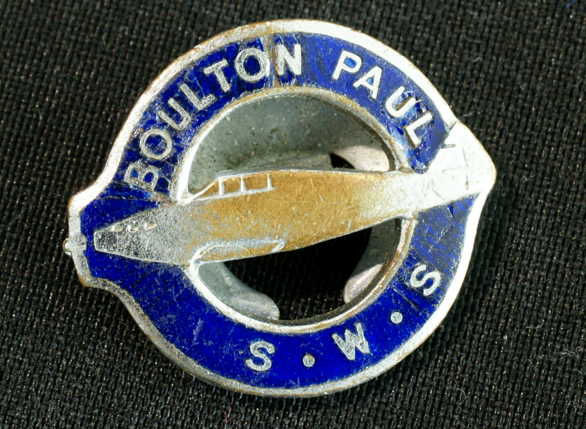 Images from ThinkTank by Sasha Taylor